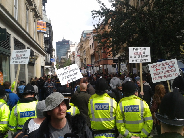 Anti-Israel protesters threatened to burn down a shop and kill the staff of a cosmetics store in Manchester that sells Israeli cosmetics. According to a report in the Jewish Chronicle and noted in a JTA report, local police are investigating the ongoing threats of the shop called Kedem. Anti-Israel protesters have disturbed business at the shop since the beginning of Operation Protective Edge, and six people have been arrested.